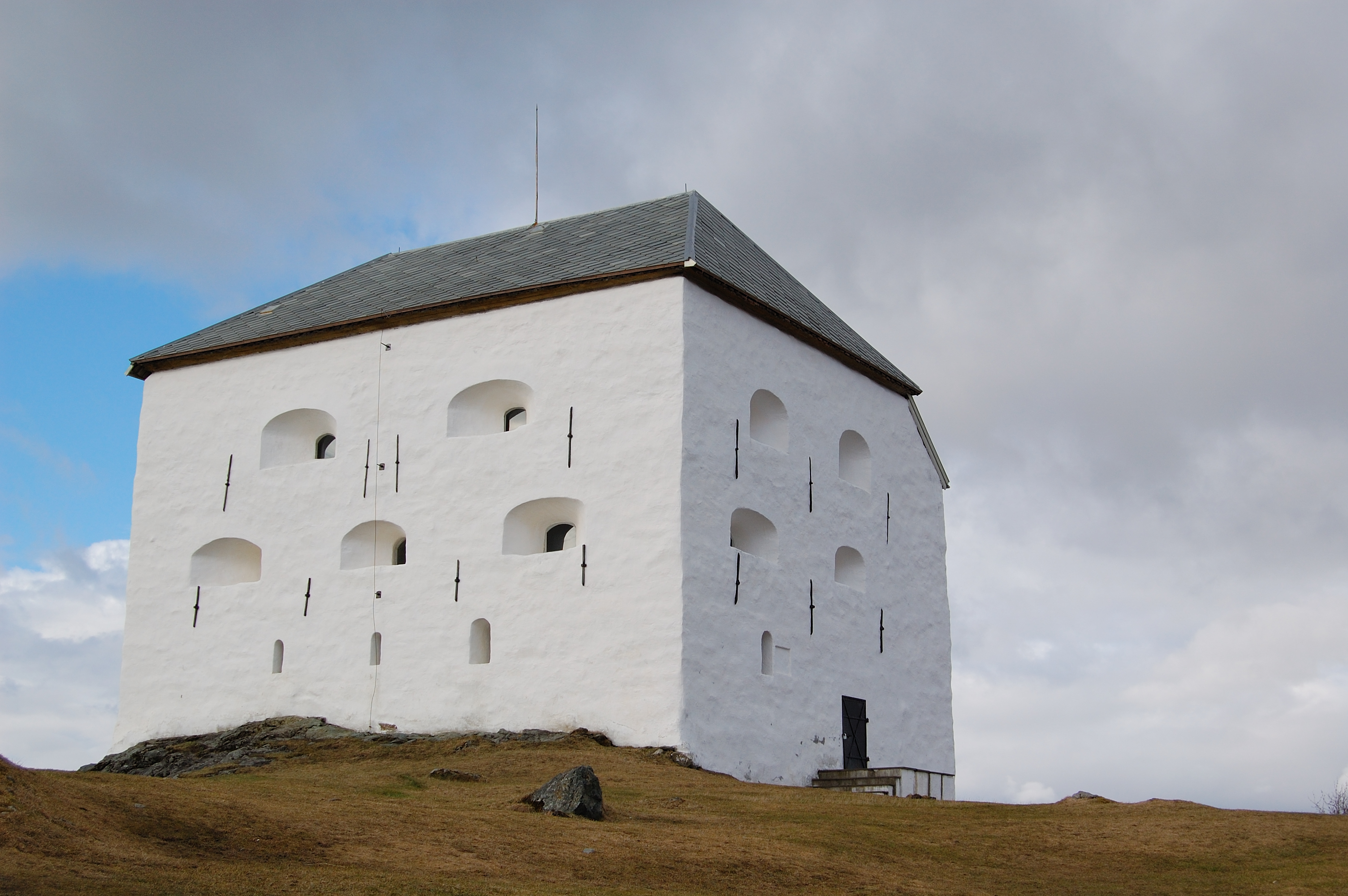 White tower, a part of the Kristiansten fortress in Trondheim, Norway.